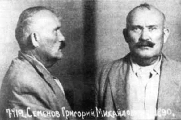 Photo of Grigory Semyonov made by the NKVD after his arrest.